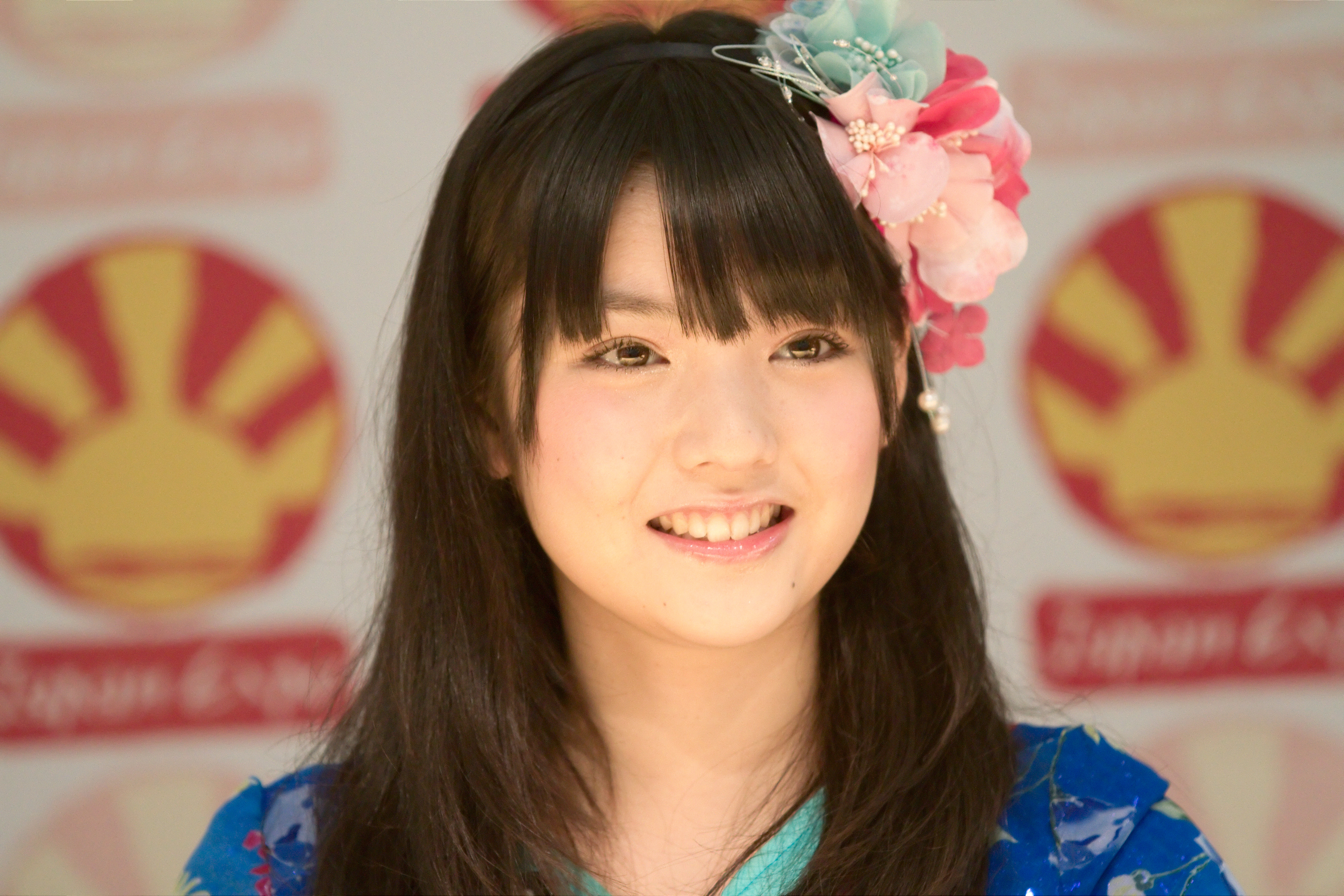 Sayumi Michishige of Morning Musume during autograph session at Japan Expo, Sunday, July 03, 2010 (Paris, France).